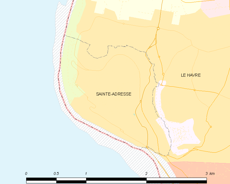 Map of French municipality Sainte-Adresse